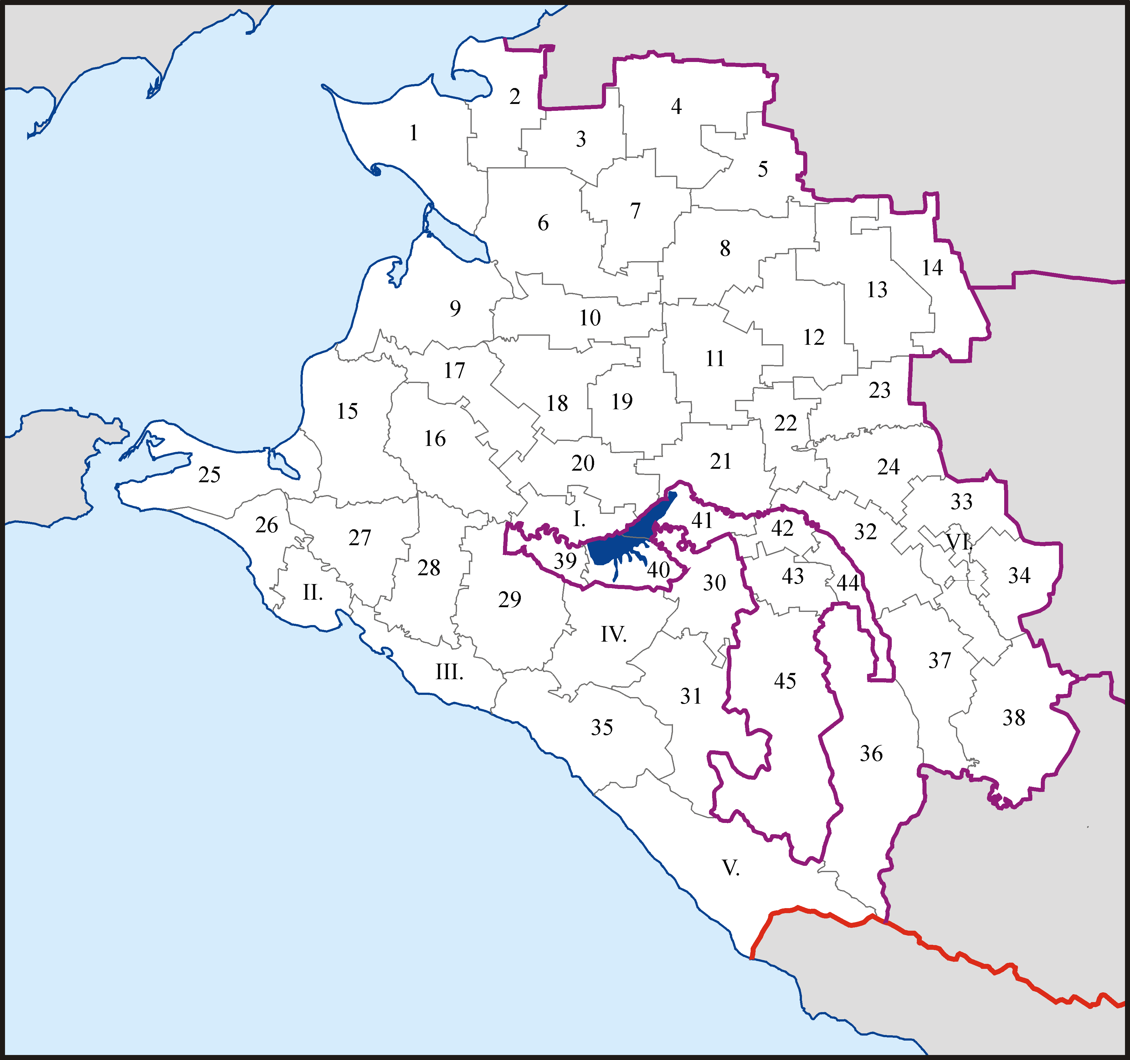 Administrative map of Krasnodarsky krai (Russia) in Mercator projecton cropped by 1 degree lines (36° - 42° E, 43° - 47° N).